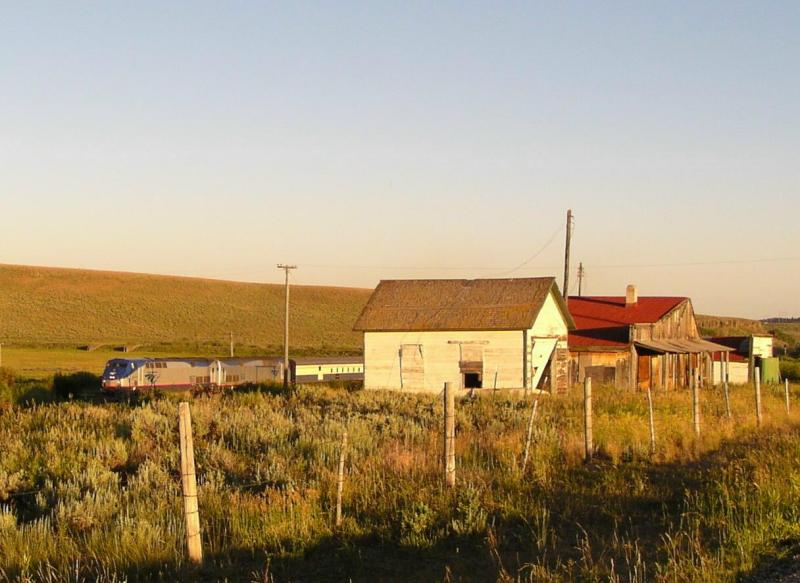 American Orient Express rolls past the old ghost town of Humphrey, having just come out of Beaver Canyon.